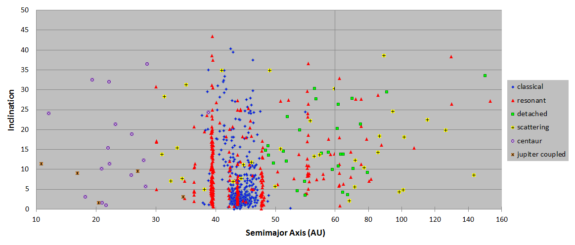 Plot of the semimajor axes and inclintions of characterized objects detected by Outer Solar System Origins Survey